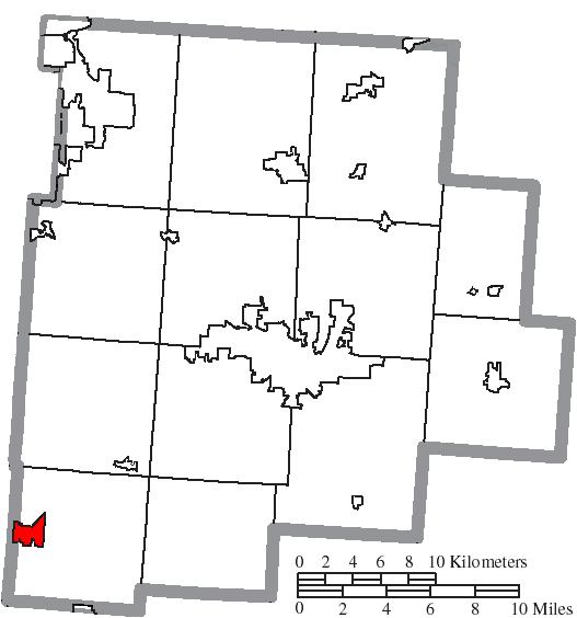 Map of the municipal and township boundaries of Fairfield County, Ohio, United States, as of the 2000 census, with the location of the village of Stoutsville highlighted. Township borders are shown only in unincorporated areas in order to differentiate incorporated and unincorporated areas more clearly.